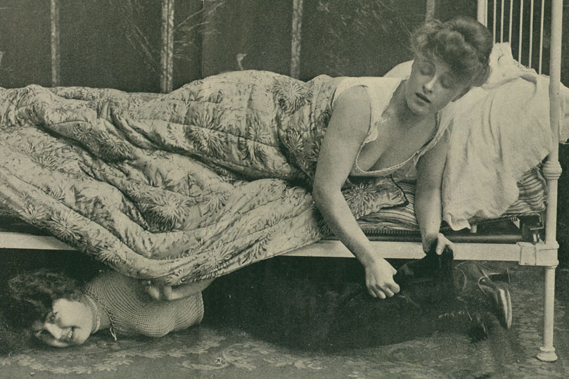 Bifurcated Girl Discovered under the Bed, from Vanity Fair's Bifurcated Girls Special Issue, June 6, 1903 This issue showed women dressed in trousers, at the time considered rather risque.